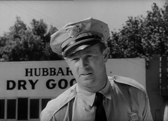 Sterling Hayden in a photo frame of Suddenly.